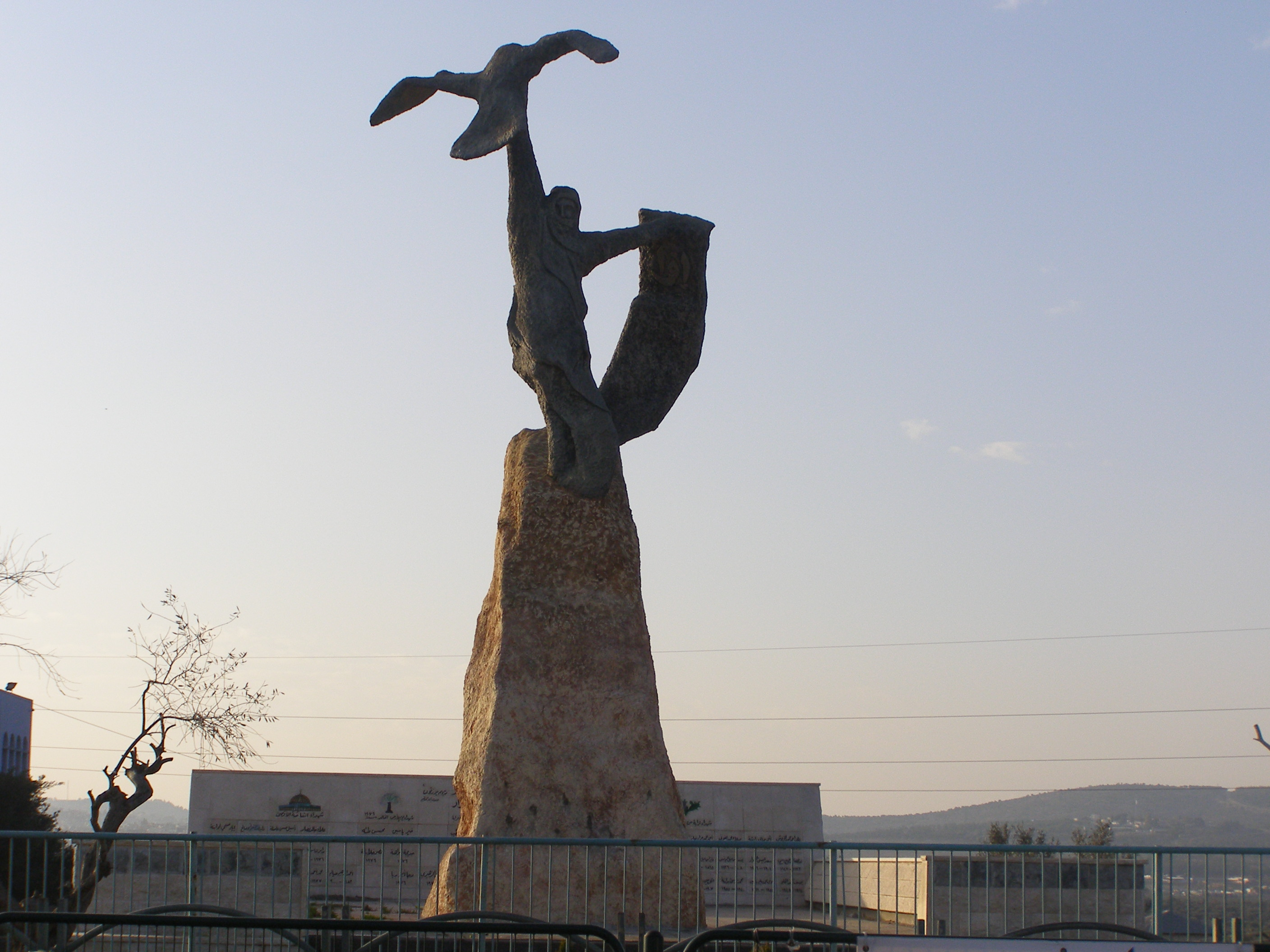 Architecture of Israel